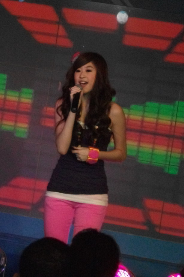 Keerati Mahaplearkpong